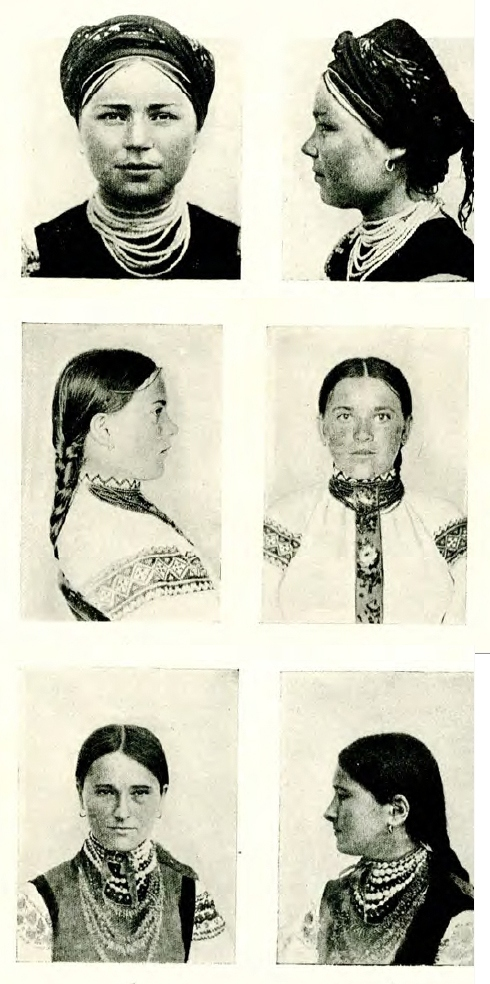 Female anthropological types of Ukrainian women